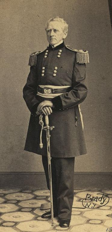 Gen'l Dix "Shoot the first man that dares pull that flag down / E. & H.T. Anthony (Firm), 501 Broadway, N.Y.